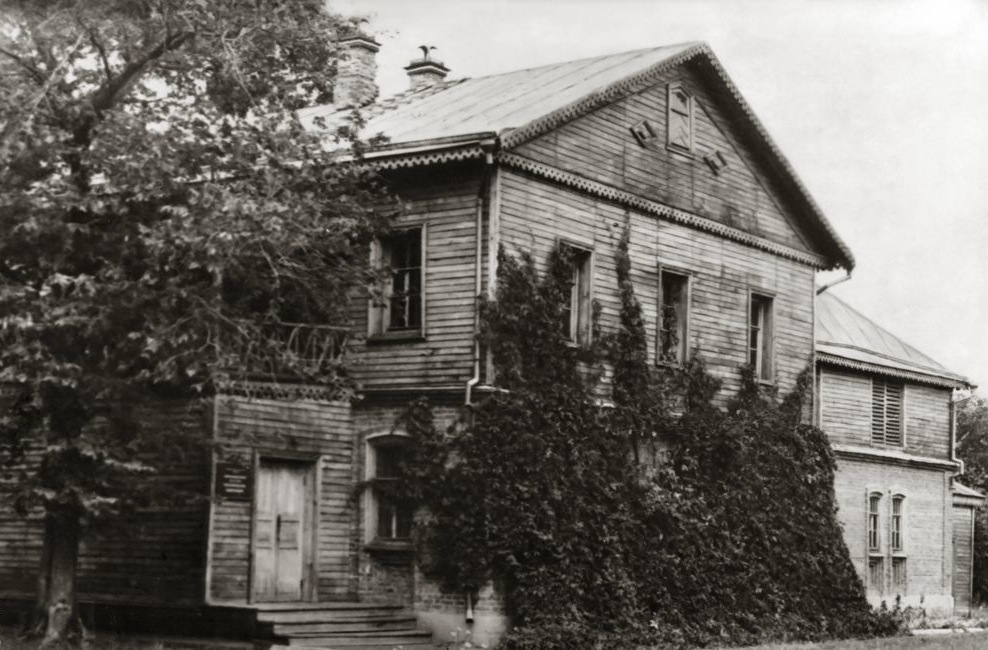 Ivanovka, estate of Sergei Rachmaninoff, near the Tambov province in Russia.